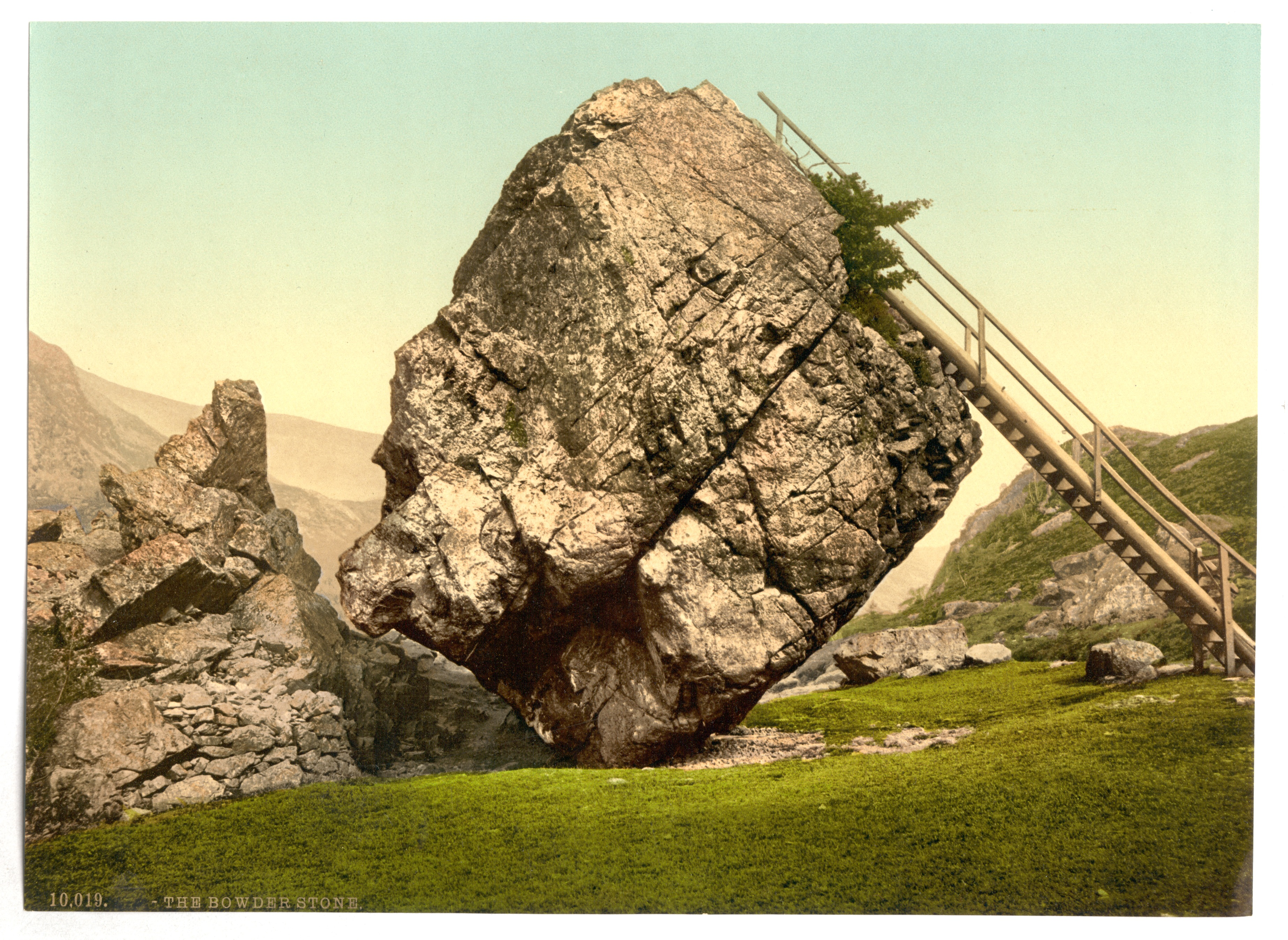 Forms part of: Views of the British Isles, in the Photochrom print collection.; More information about the Photochrom Print Collection is available at Title from the Detroit Publishing Co., Catalogue J-foreign section, Detroit, Mich. : Detroit Publishing Company, 1905.; Print no. "10019".